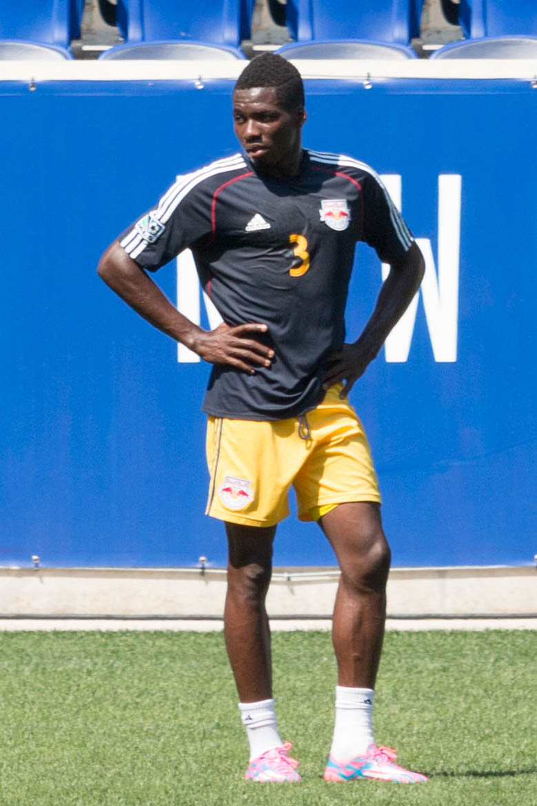 Ambroise Oyongo